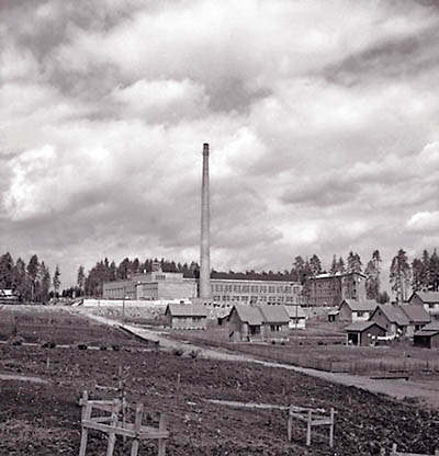 Jyväskylä, Finland cannon factory ("Valtion Tykkitehdas") foundry in 1947